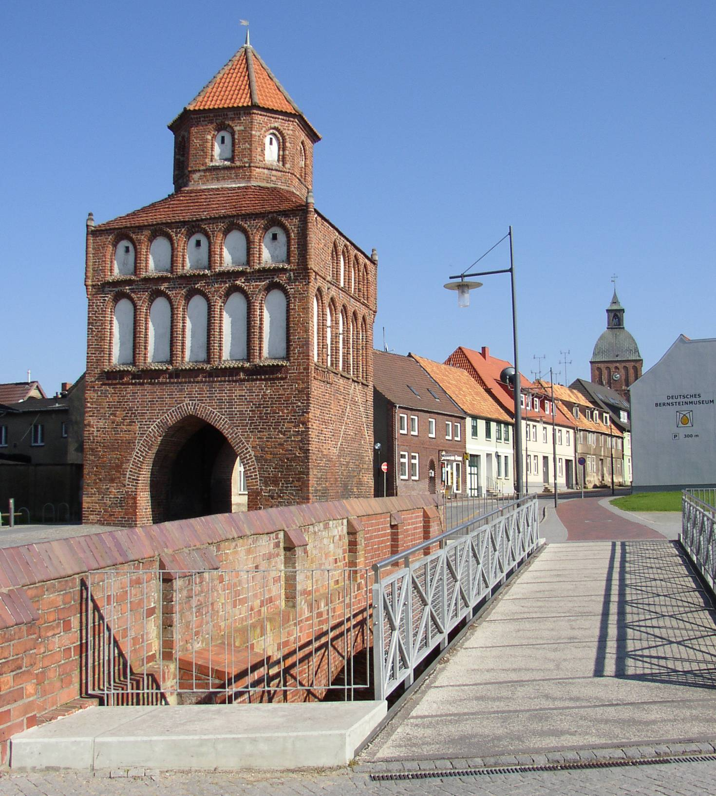 City gate and St. Mary's Church in Ribnitz-Damgarten in Mecklenburg-Western Pomerania, Germany